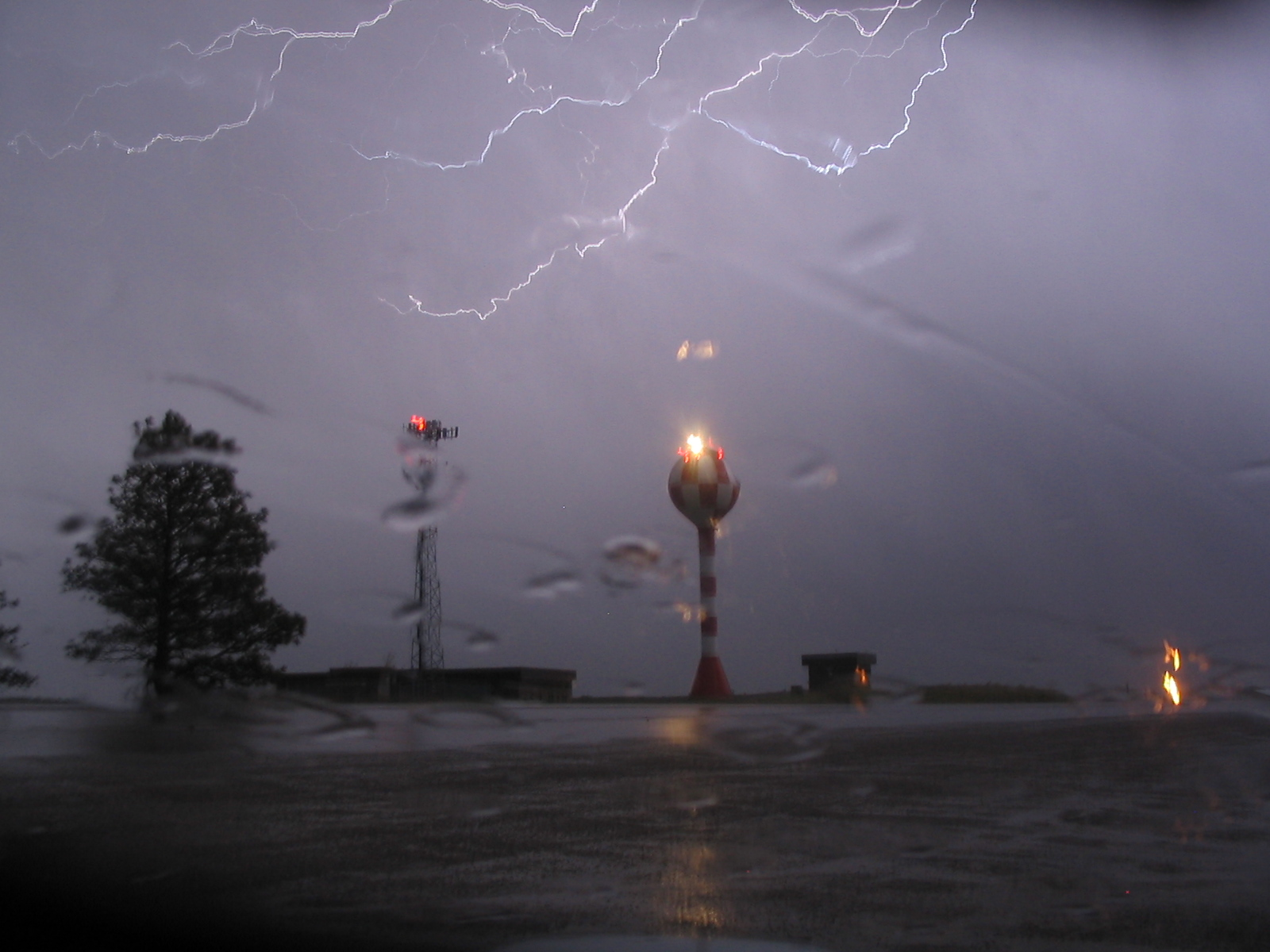 Lightning strikes near the airport water tower.